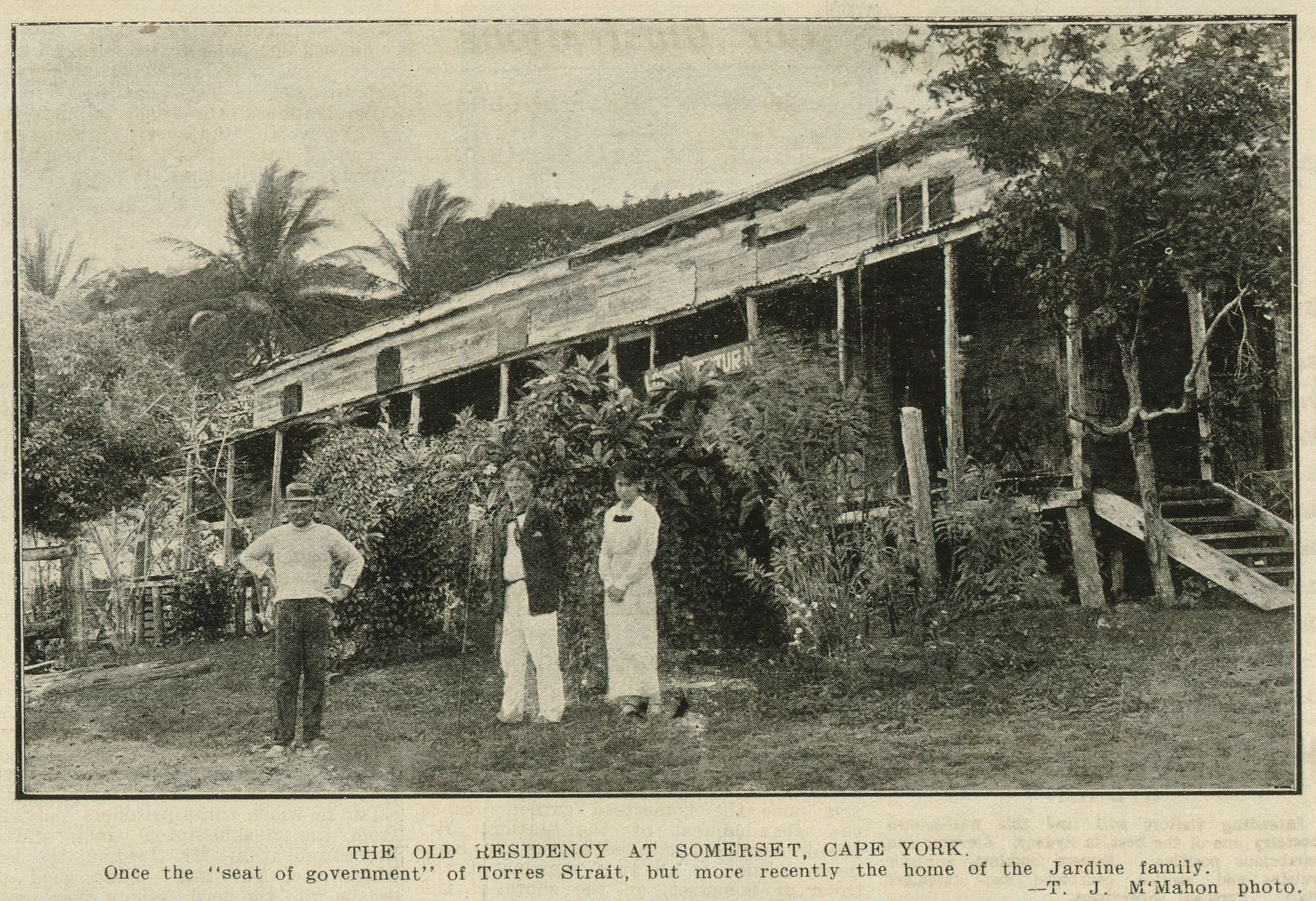 The old residency at Somerset, Cape York. Once the "seat of government" of Torres Strait, but more recently the home of the Jardine family